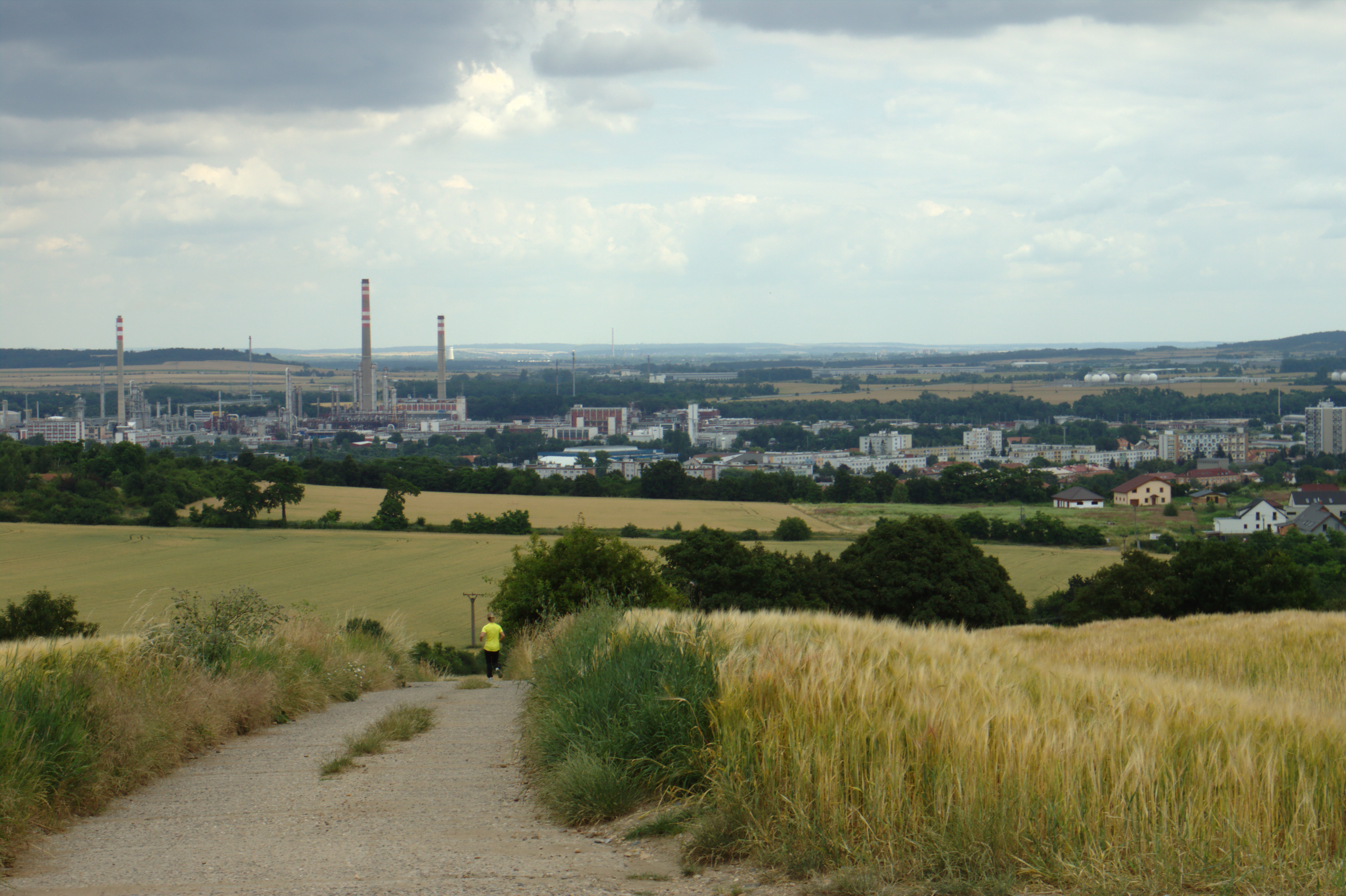 View of the refinery in Kralupy nad Vltavou, Central Bohemian Region, CZ